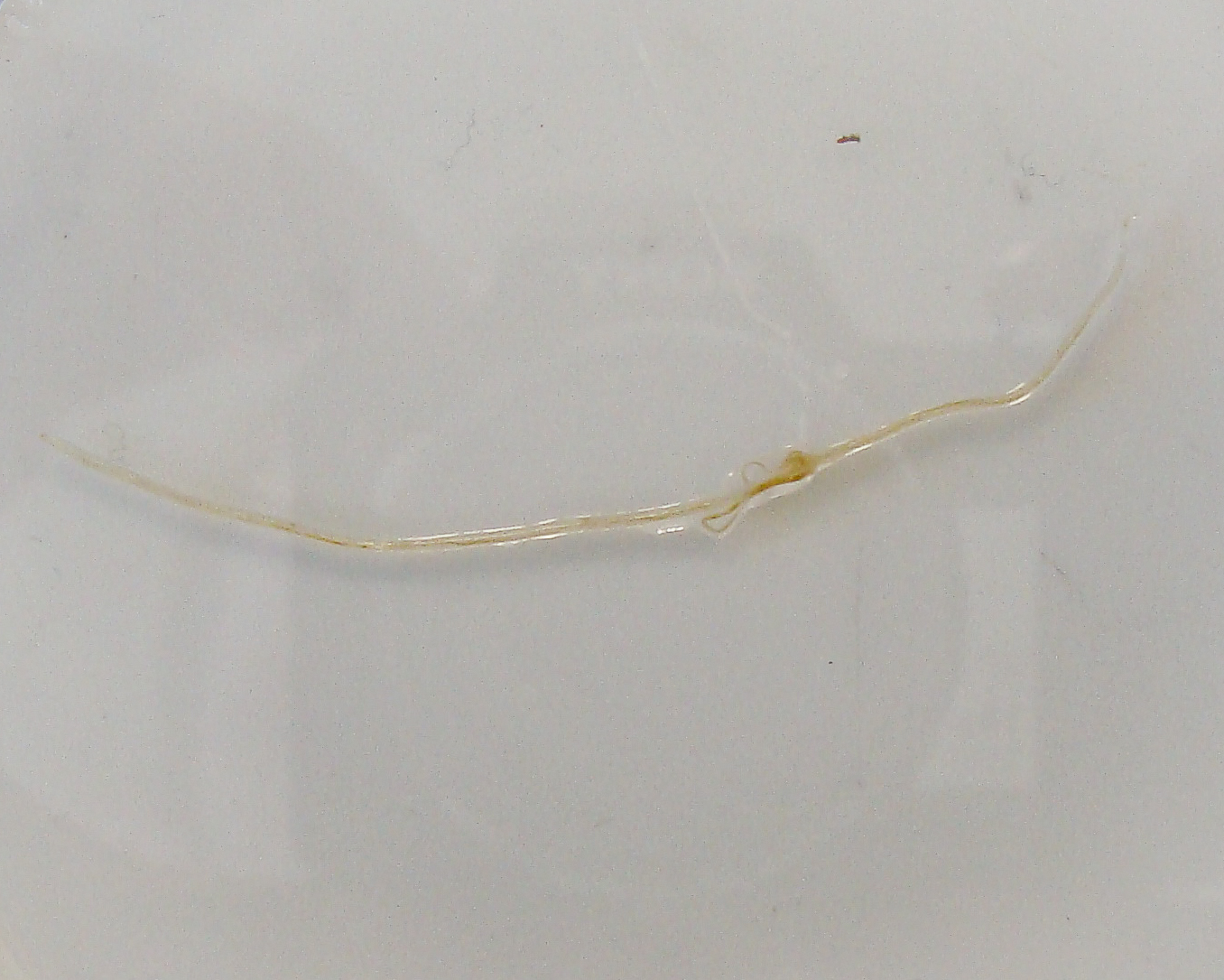 Loa Loa - filarial worm. This was extracted from a patients conjunctiva in the left eye. It was still moving on extraction and measures 55mm in length by 0.5mm in width. Patient was originally from East Africa - parasite infection by this worm is rarely found in the UK. In all cases seen in UK the infection arose abroad. This is an adult female worm.